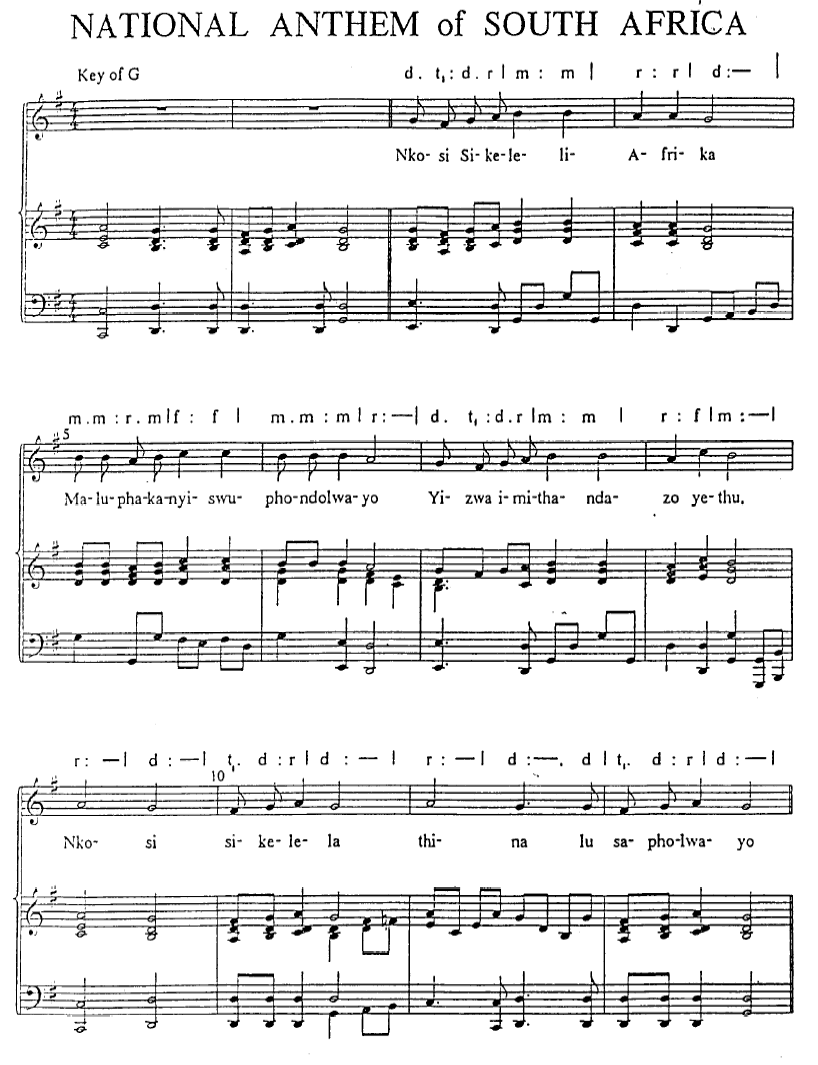 National anthem of South Africa, page 1